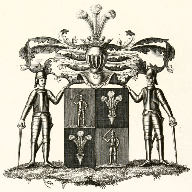 This (more than) 200 years old image has been reformatted, so it became a personal creation, with no rights attached